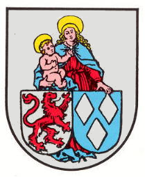 Coat of arms of Gauersheim